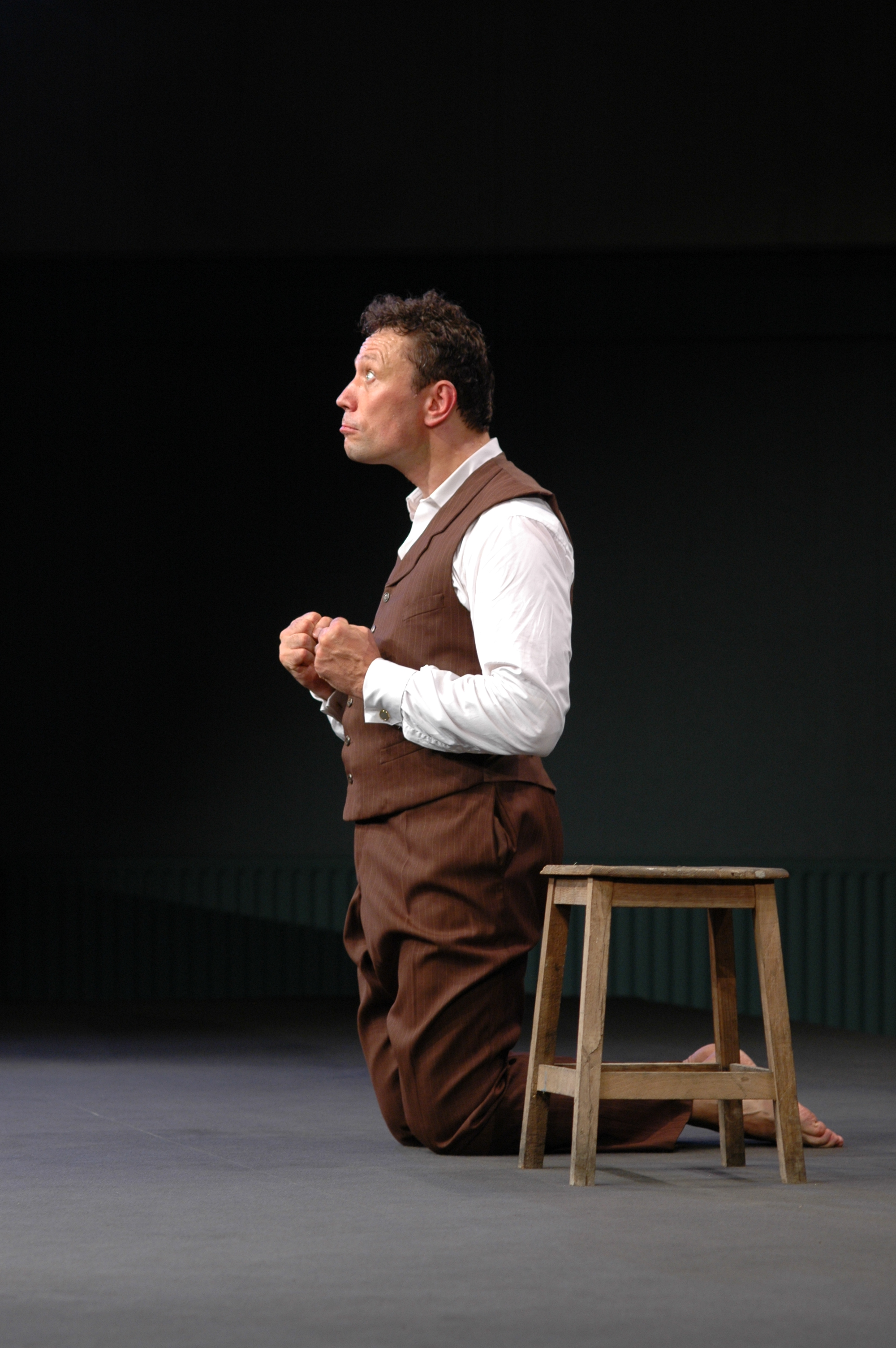 on stage